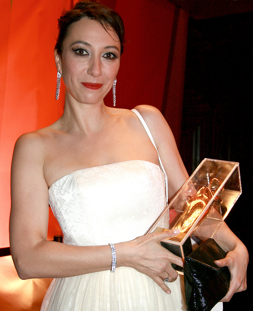 Ursula Strauss at the Romy TV awards (Hofburg Imperial Palace in Vienna)